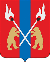 Coat of Arms of municipality "Chudovsky rayon" (Novgorod oblast in Russia)